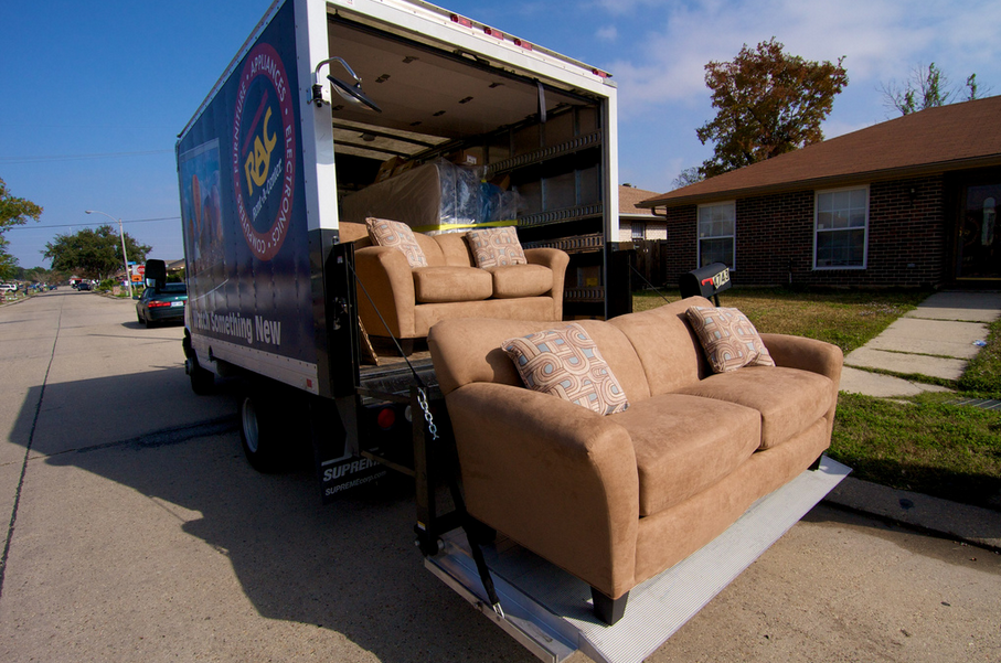 This photo was taken on 12/9/09. In the photo, a delivery truck is unloading couches.